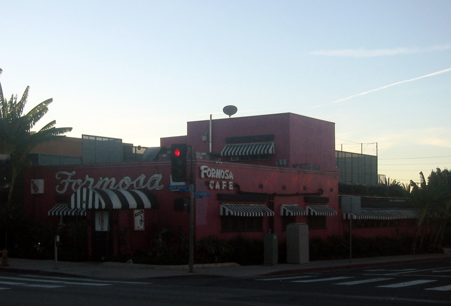 Formosa Cafe in West Hollywood, California